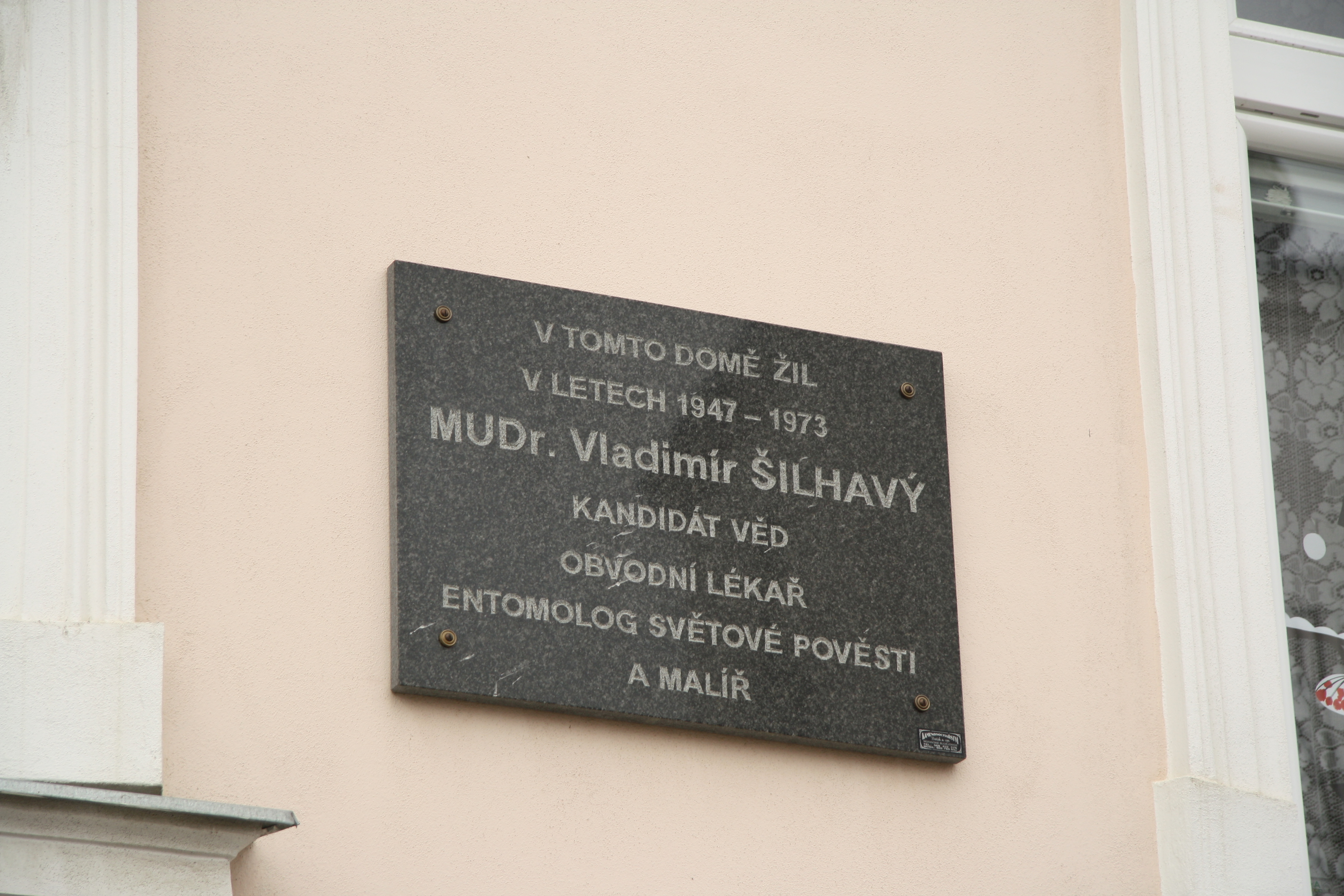 Plaque of home of Vladimír Šilhavý in Stařeč, Třebíč District.